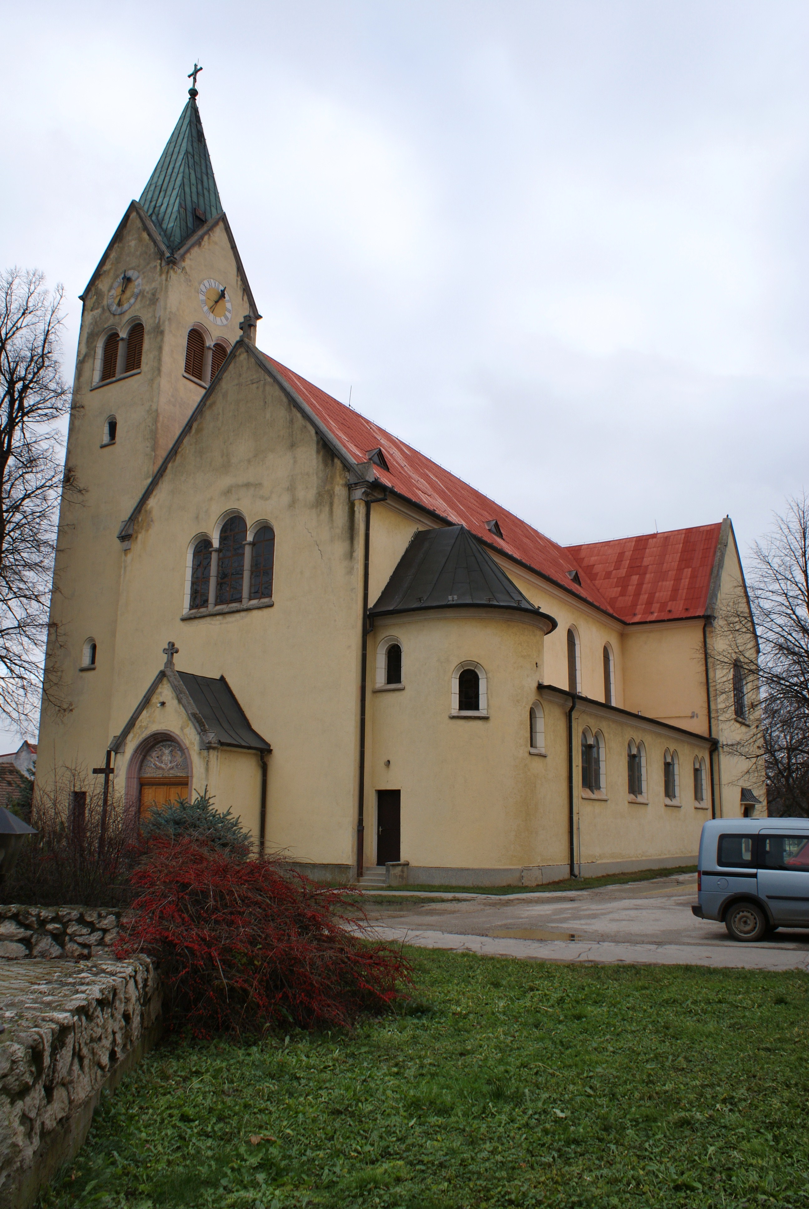 Cífer, a village in Trnava district, Slovakia, church